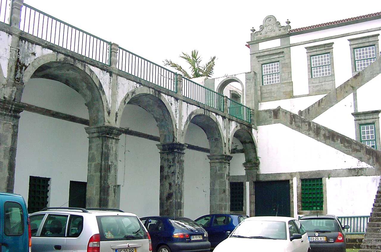 Episcopal palace of Santa Catarina, seat of the Bishop of Angra, Pico da Urze, São Pedro, Angra do Heroísmo, Terceira (Azores), Portugal